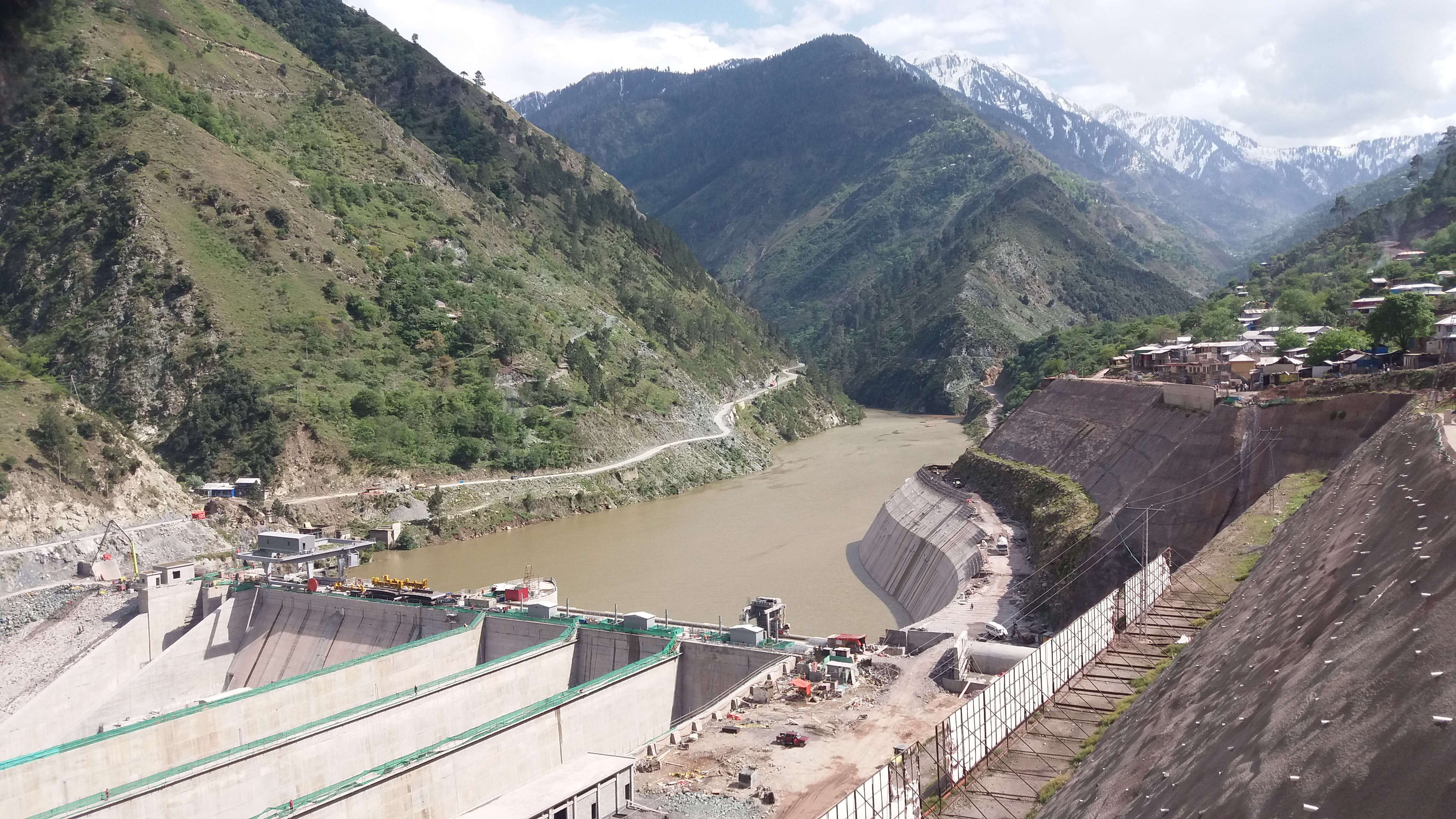 Main dam body - Neelum Jhelum Hydropower Plant